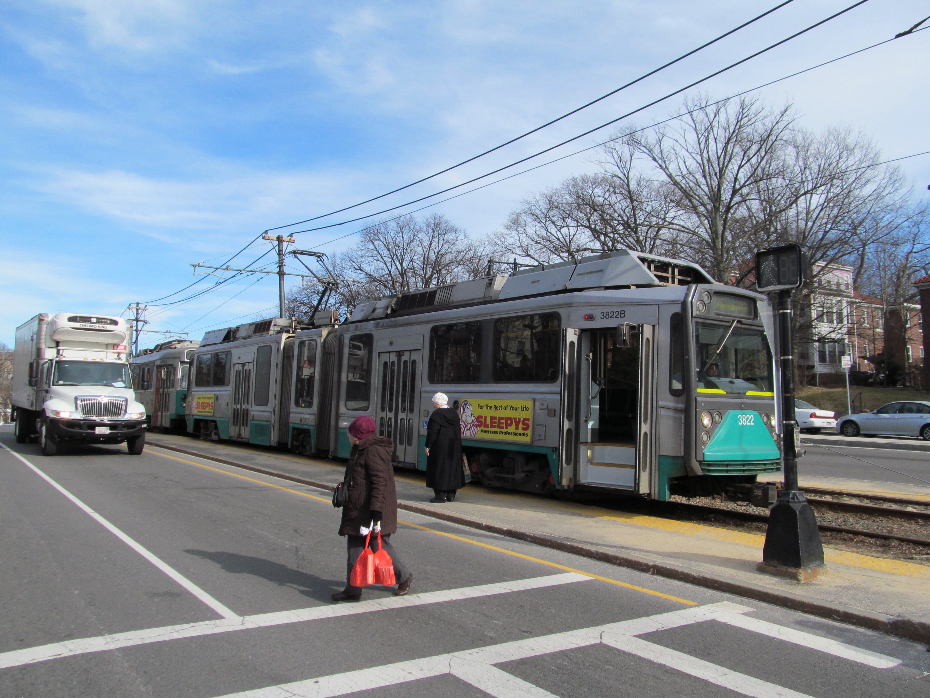 Chiswick Road MBTA station outbound, Brighton Massachusetts